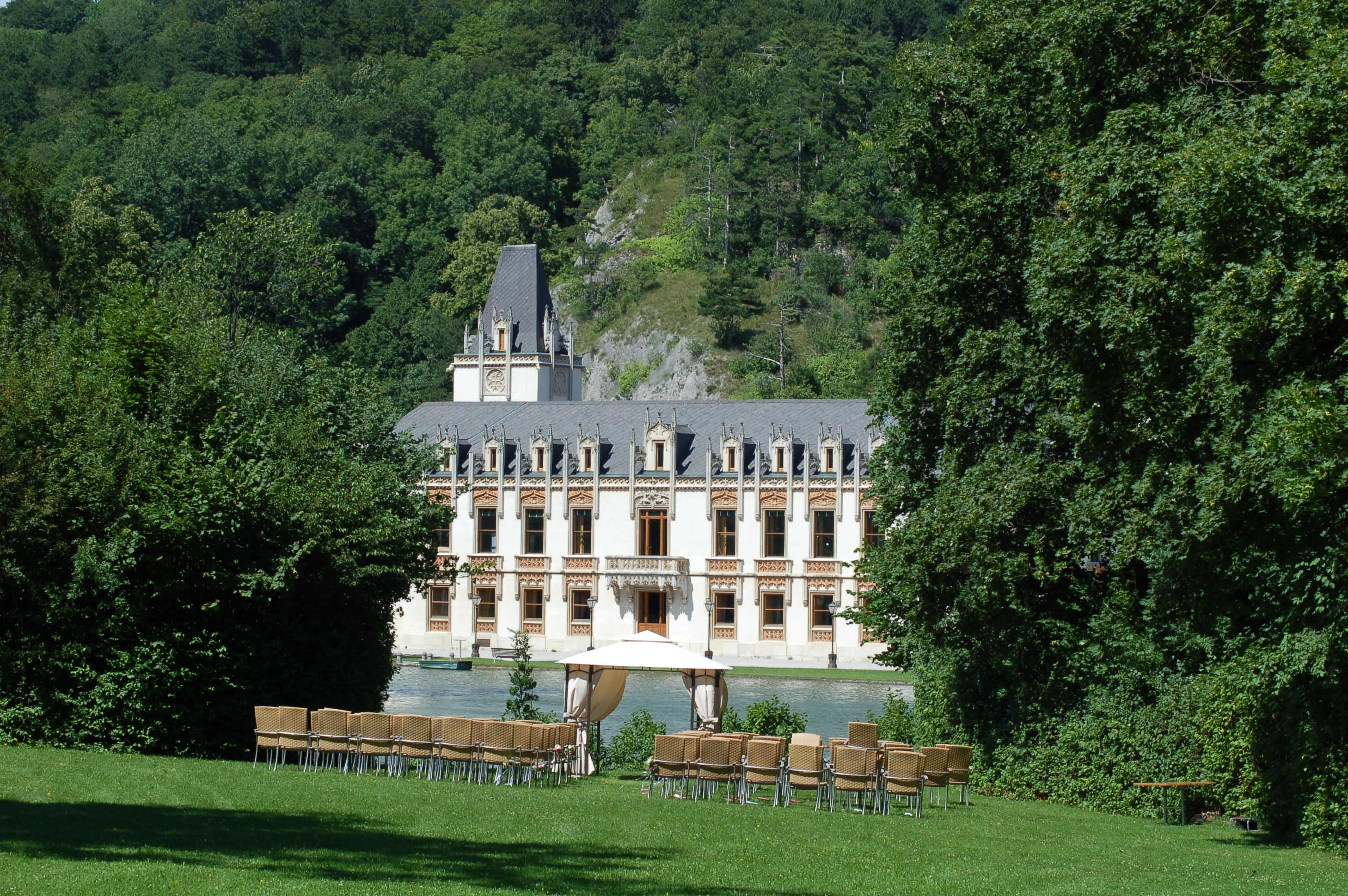 Schloss Hernstein, a castle in Hernstein, Lower Austria. Rebuild by Theophil Hansen.